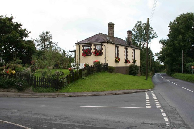 No trains here now The former station buildings at Dousland now a private dwelling. The railway from Princetown to Yelverton was one of the first to shut down, long before Beeching came along.